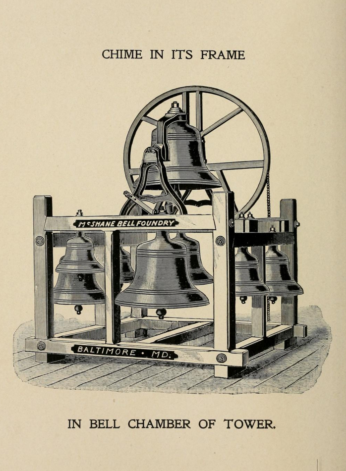 This is a drawing of a McShane Bell Foundry (Baltimore MD) Eight Bell Chime in its frame as it would appear in the Bell Chamber of a tower. This is from a 1910 McShane Catalog.